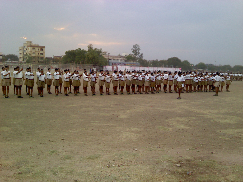 Rashtriya Swayamsewak Sangh (RSS) drill at Sangh headquarter Reshimbag Ground, Nagpur during a national camp in May 2011.